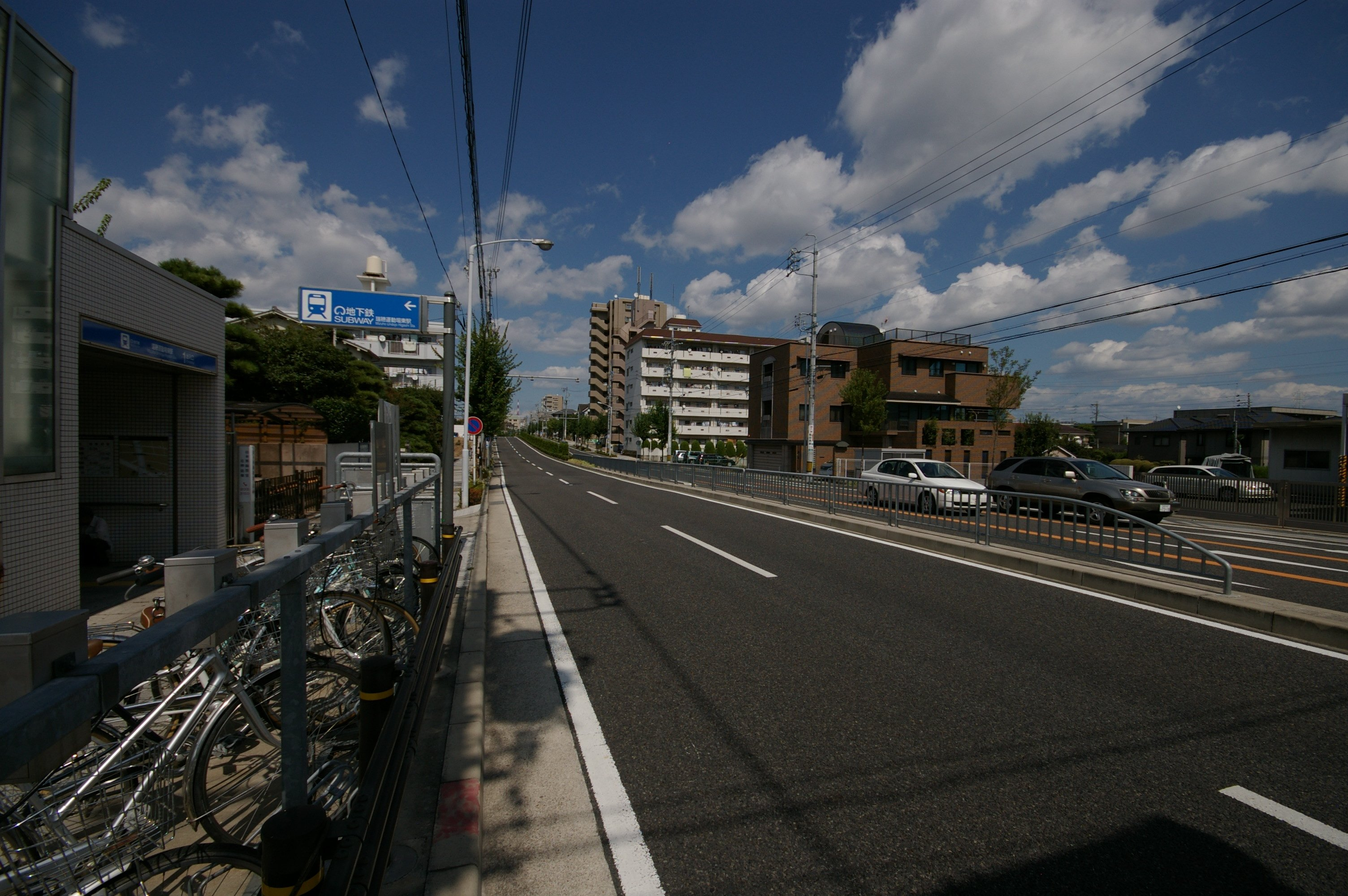 Nagoya Subway Mizuho Undojo Higasi Station